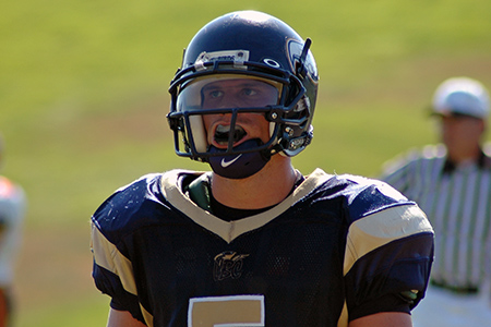 Picture of Konrad Wasiela playing for the UBC Thunderbirds football team